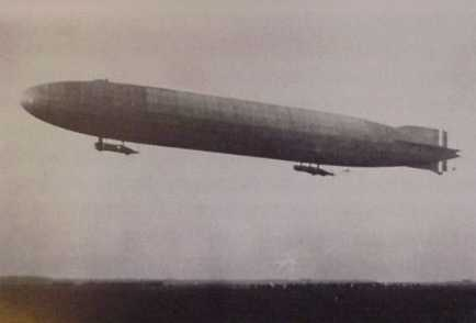 The German Naval Zeppelin L.19 (LZ54) in flight.